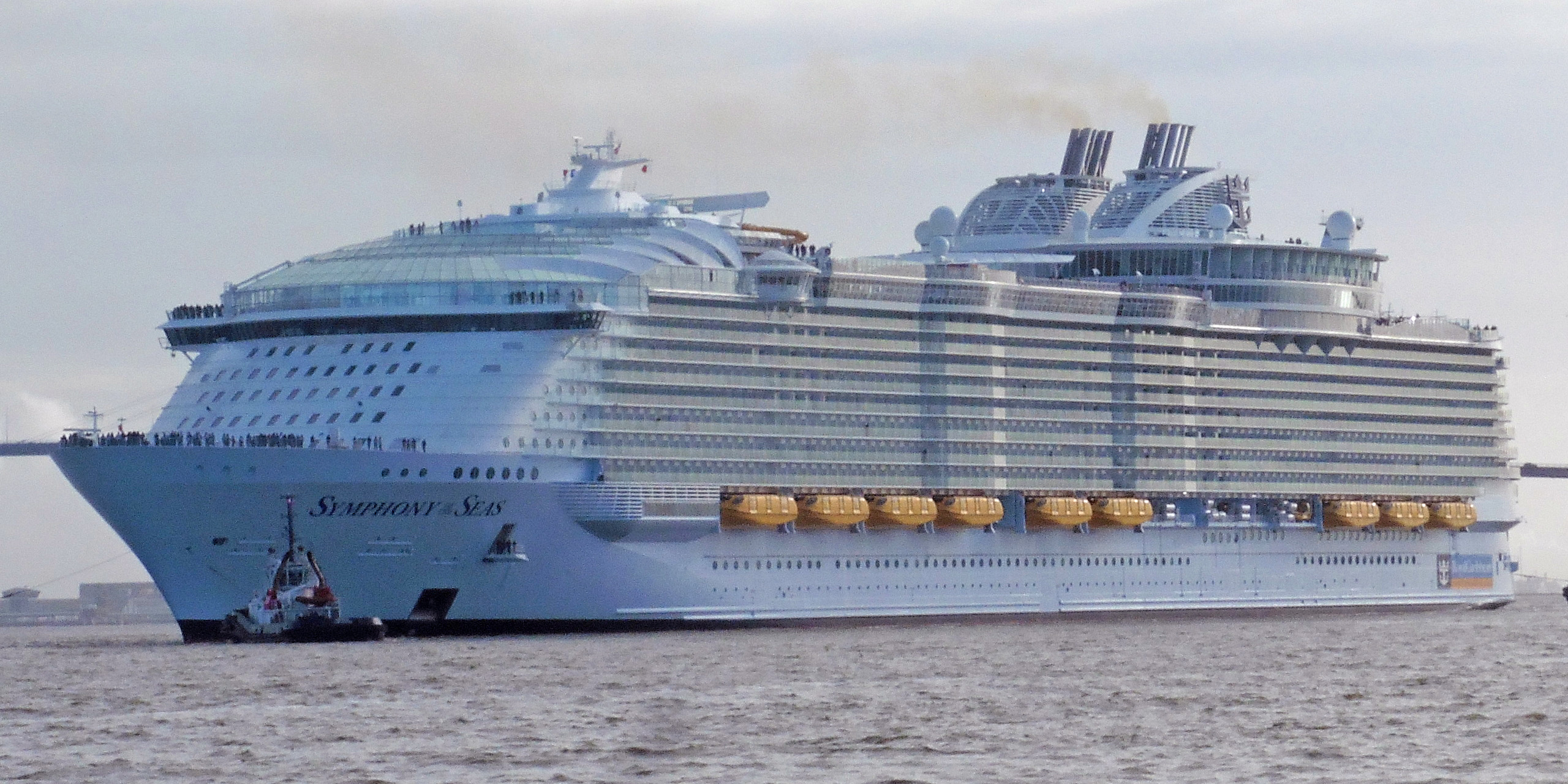 Symphony of the Seas leaving St Nazaire on March 24th 2018